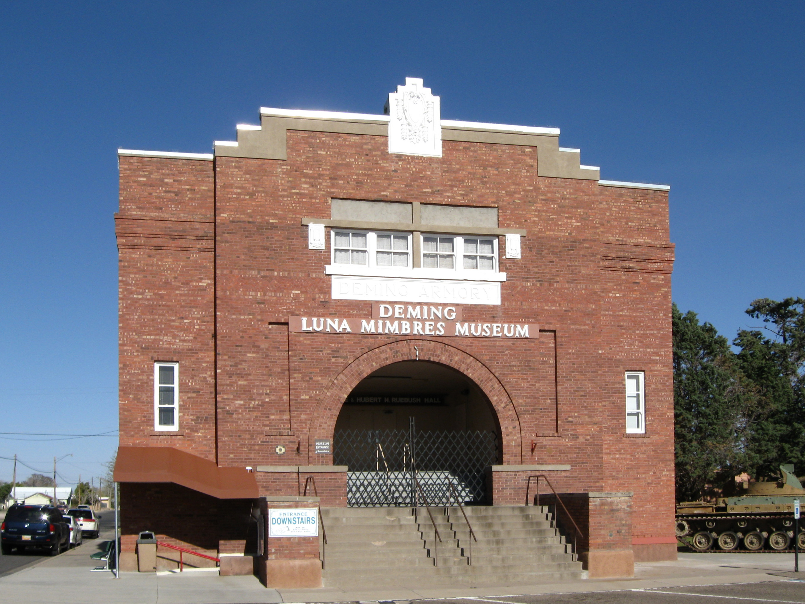 Deming Luna Mimbres Museum (originally the Deming Armory), located at 301 South Silver Street in Deming, New Mexico.